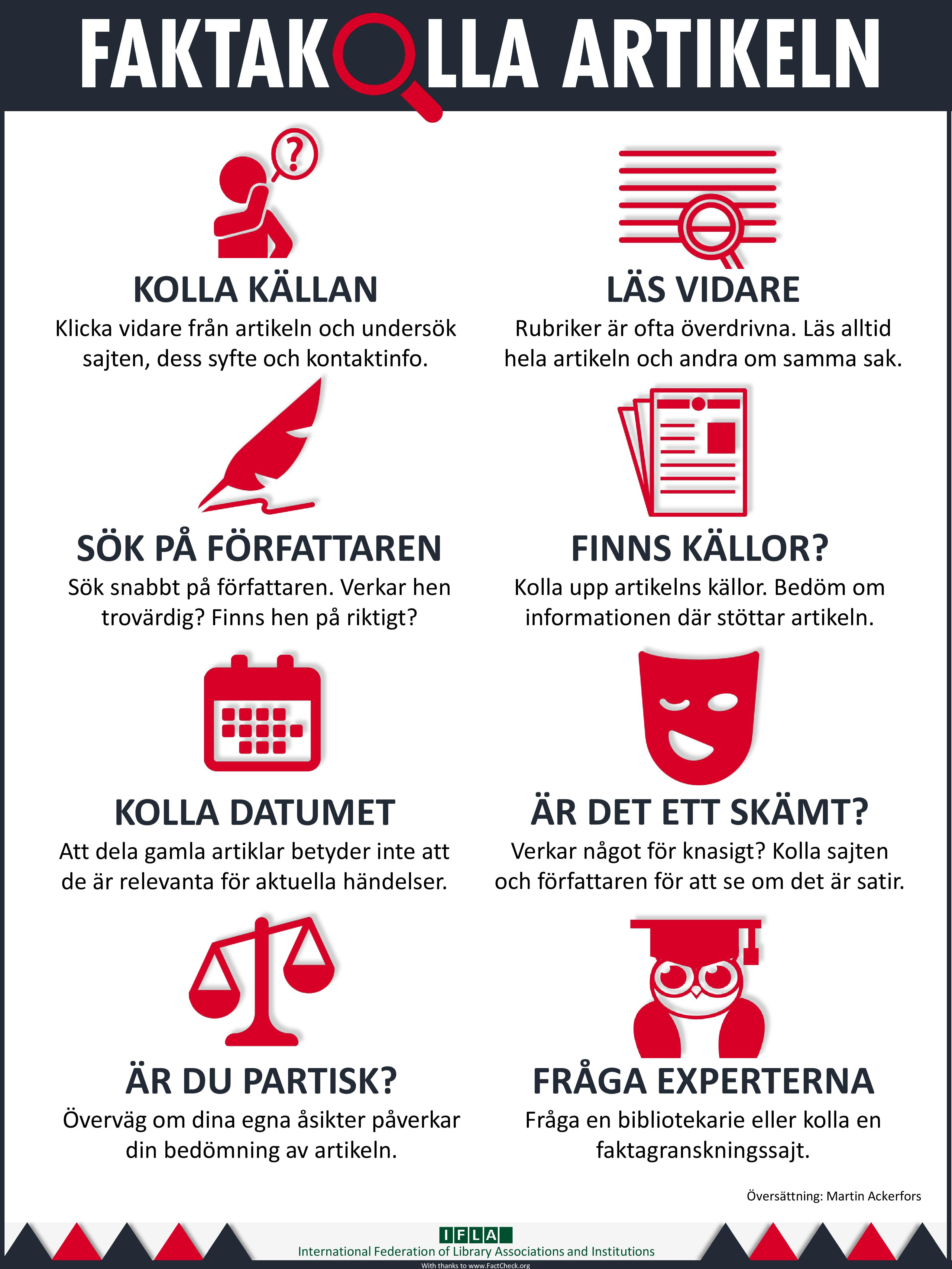 Swedish translation of IFLA infographic "How to Spot Fake News" in JPG format.